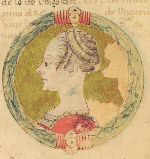 Beatrice of Sicily, 2nd wife of Azzo VIII d'Este